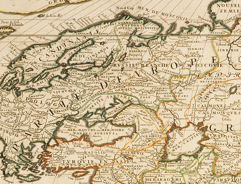 European part of "L'Asie selon les memoires les plus nouveaux dressée"